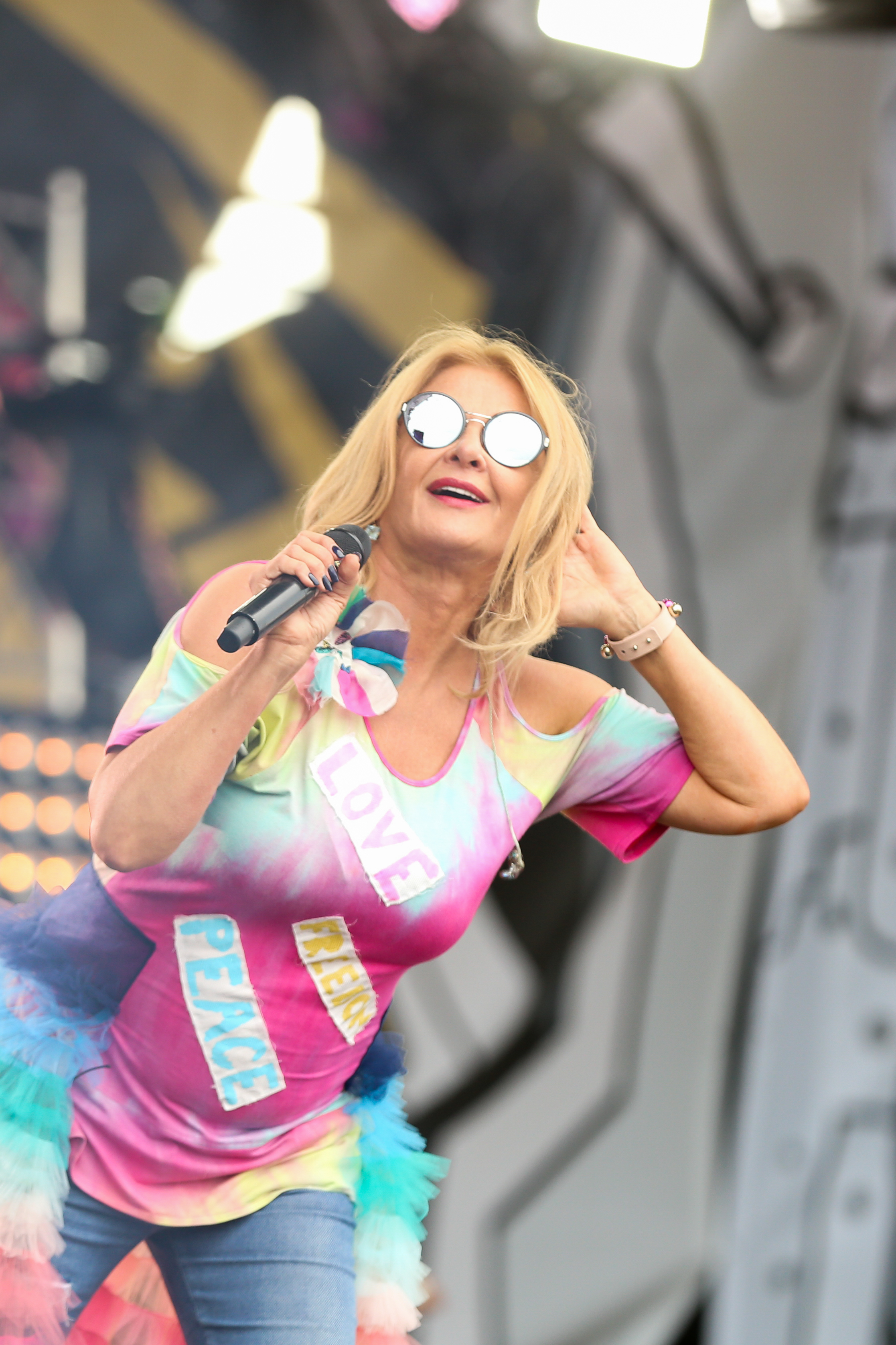 Pol'and'Rock Festival in 2019.